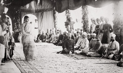 The unknown courtesans singing Ghazals in a Mushaira, Hyderabad, India.